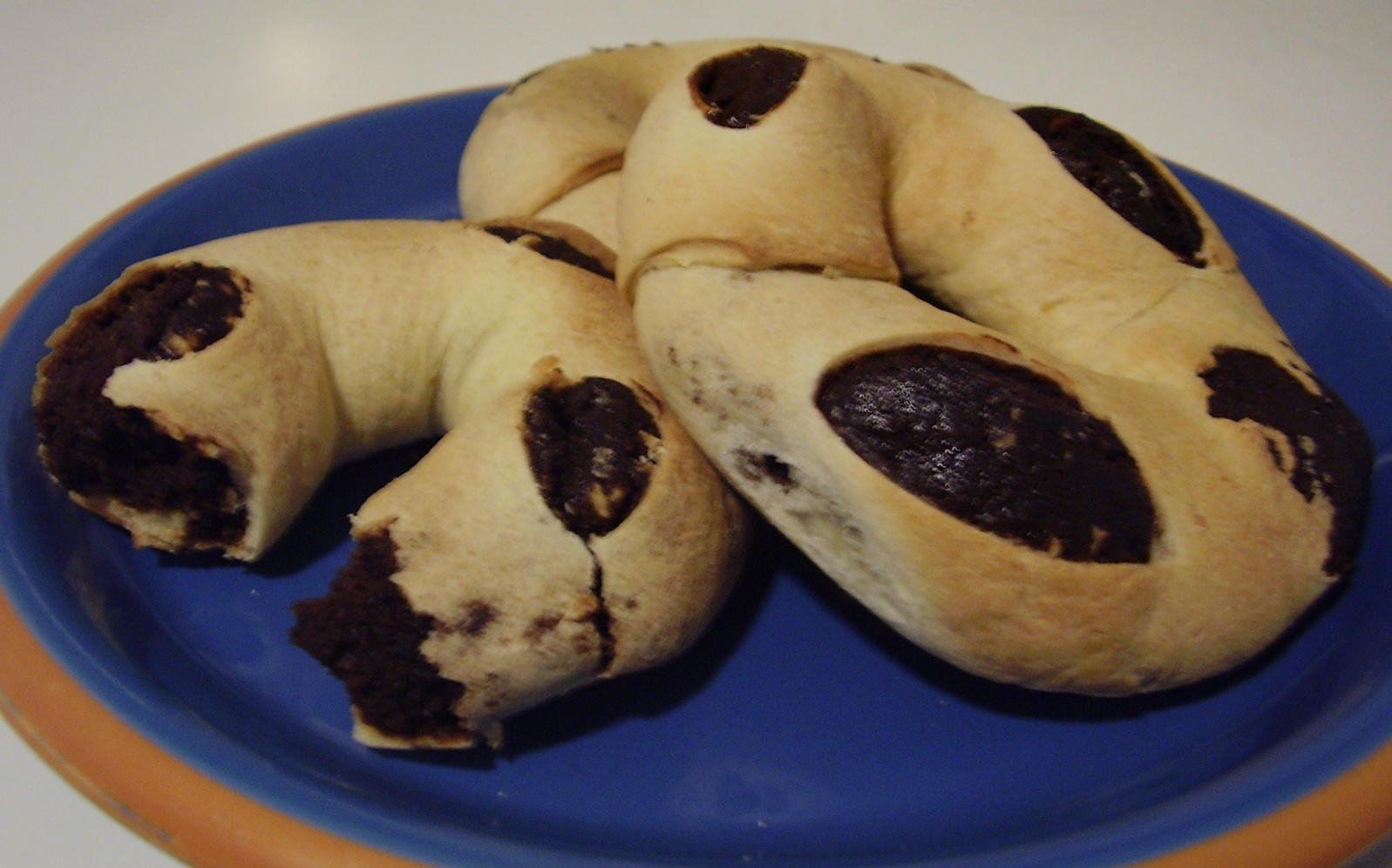 Qagħaq ta' l-Għasel/Qaq tal Ghasel (Maltese honey ring), purchased in Malta Village, Toronto